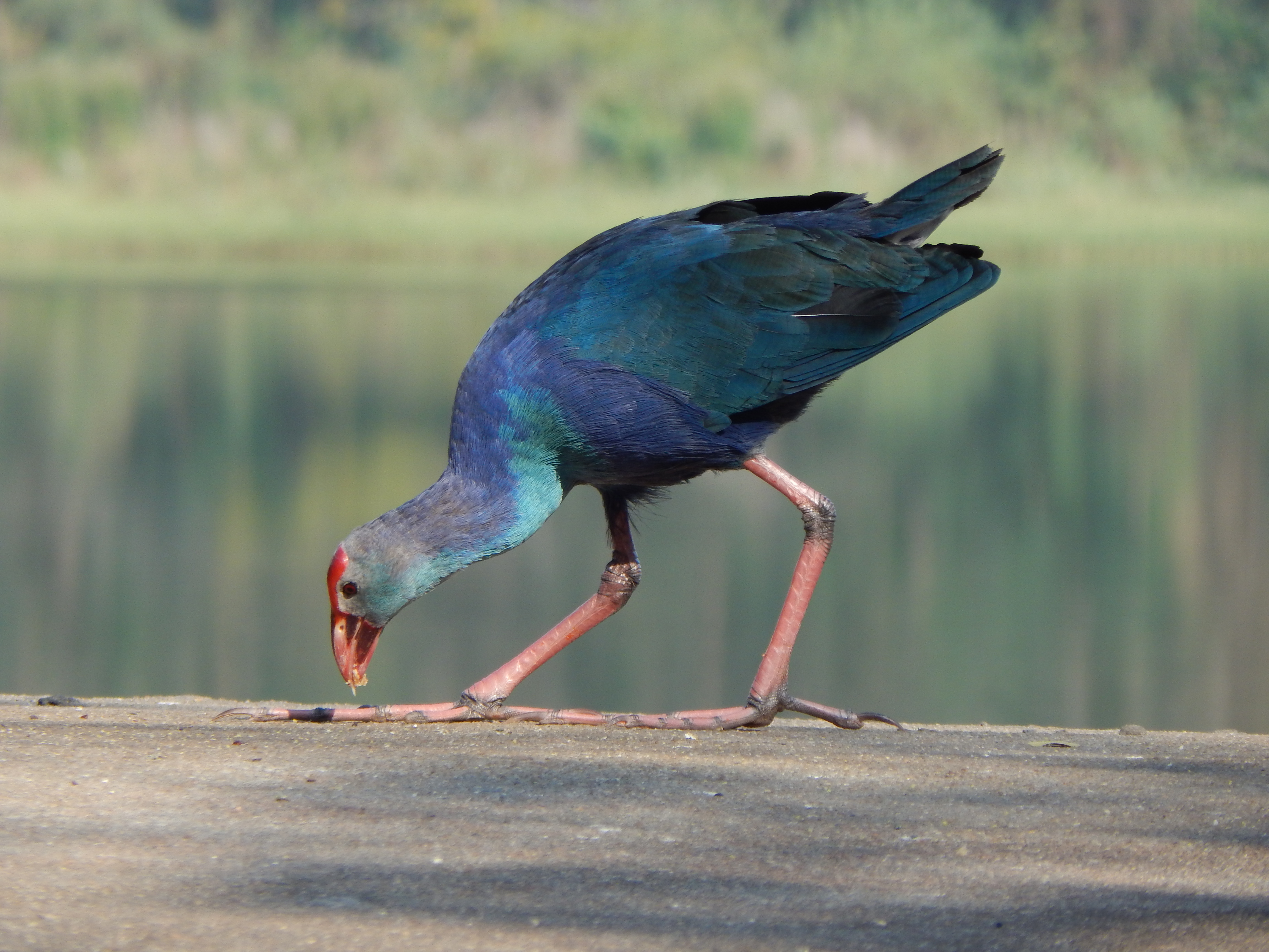 Grey-headed swamphen foragng